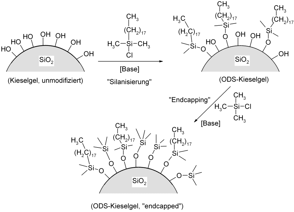 Preparation of endcapped reversed phase silica gel by silylation with octadecyldimethylchlorosilane and subsequent endcapping with chlorotrimethylsilane